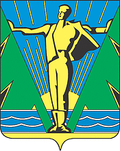 Komsomolsk-na-Amure (Khabarovsk kray), coat of arms (1999)